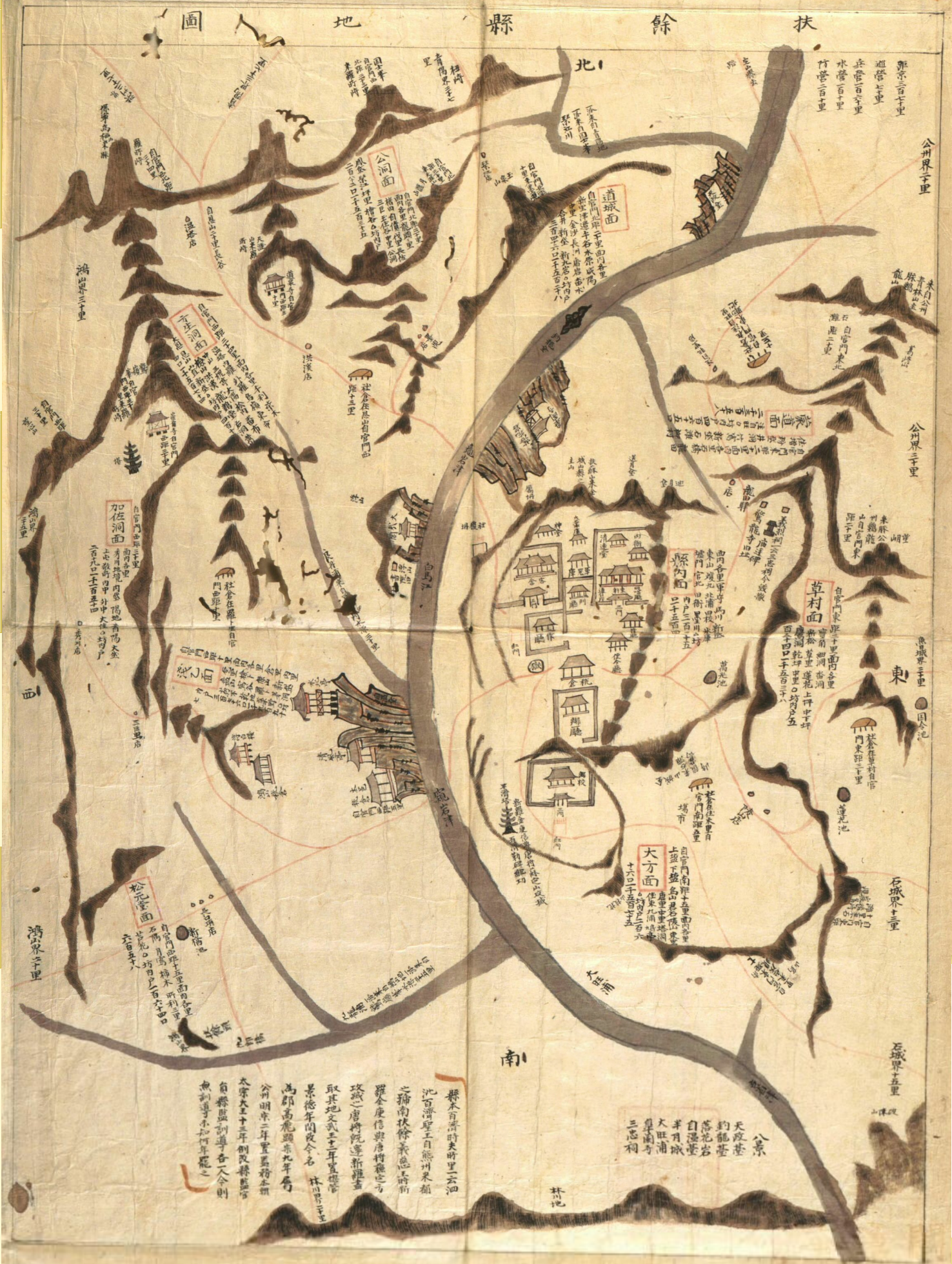 Old map of Buyeo County